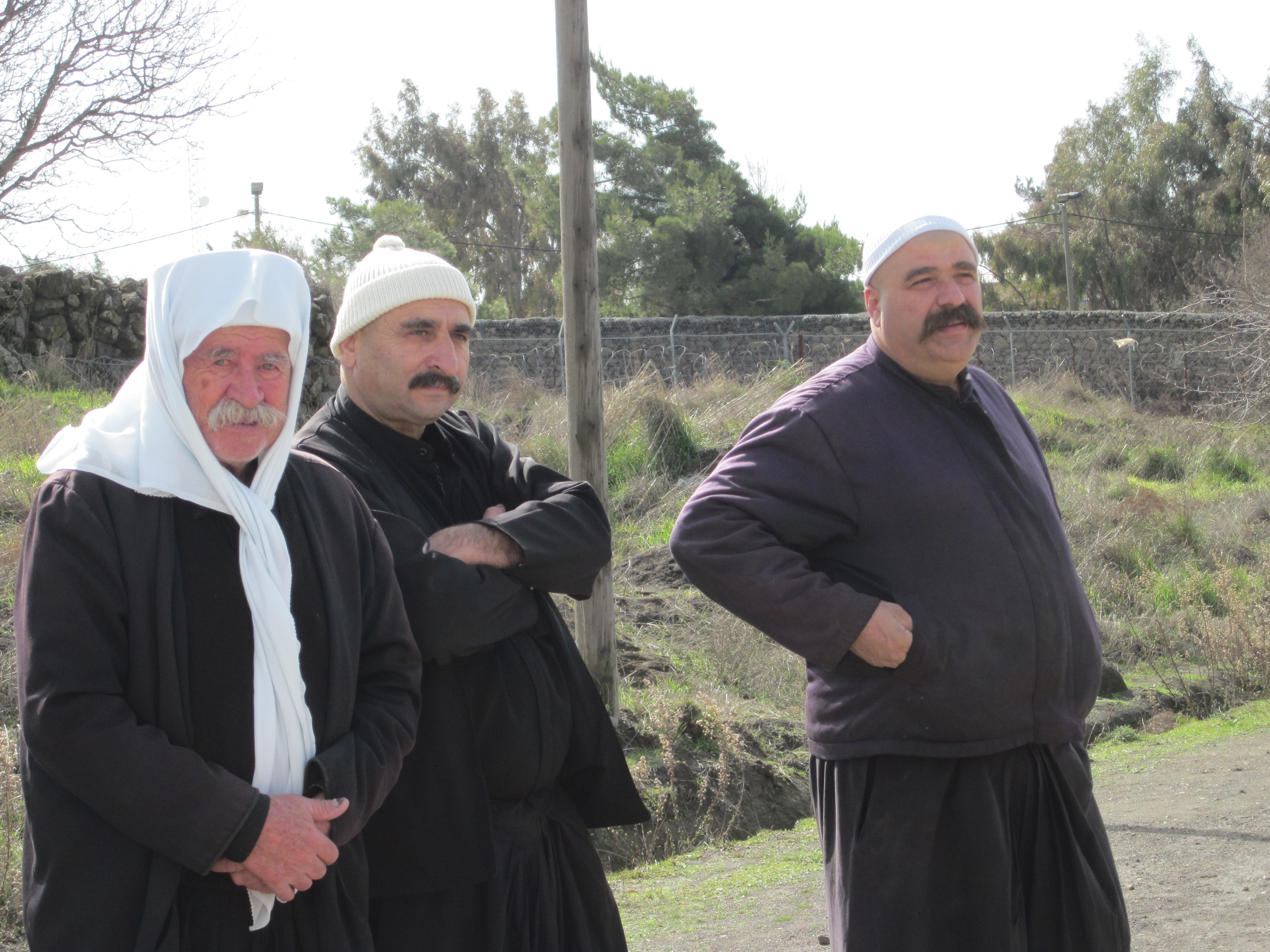 February 14, 2011. Apples grown by Israeli civilians in the Golan Heights being exported to Syria via the “Quneitra” crossing, in an annual exchange directed by the Israeli government and at the request of the International Red Cross (IRC). 30 trucks, carrying 12,000 tons of apples cross into Syria every day over the span of several weeks. 2011 marks the sixth consecutive year in which Israel-grown apples are exported to Syria, and since the beginning of the project the amount of apples exported from Israel has doubled. Pictured here: Members of the Druze community who reside in the Golan Heights where the apples were grown (near the Israeli-Syrian border), overlook the transporting of the apples onto trucks en route to Syria. For more details, see our blog.